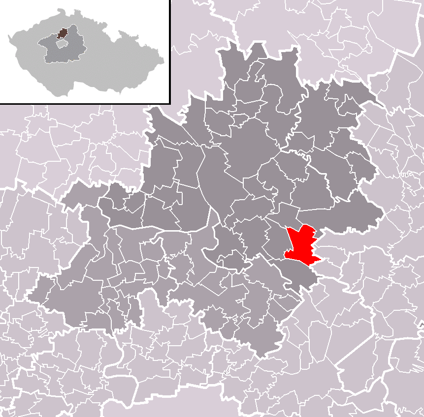 Location of Byšice municipality within Mělník District and administrative area of Mělník as a Municipality with Extended Competence.